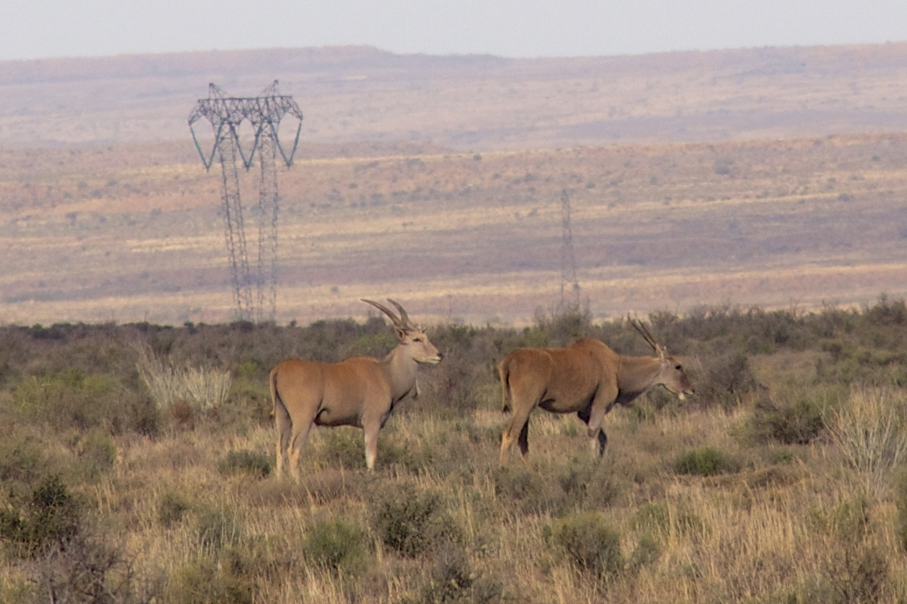 Karoo National Park, South Africa